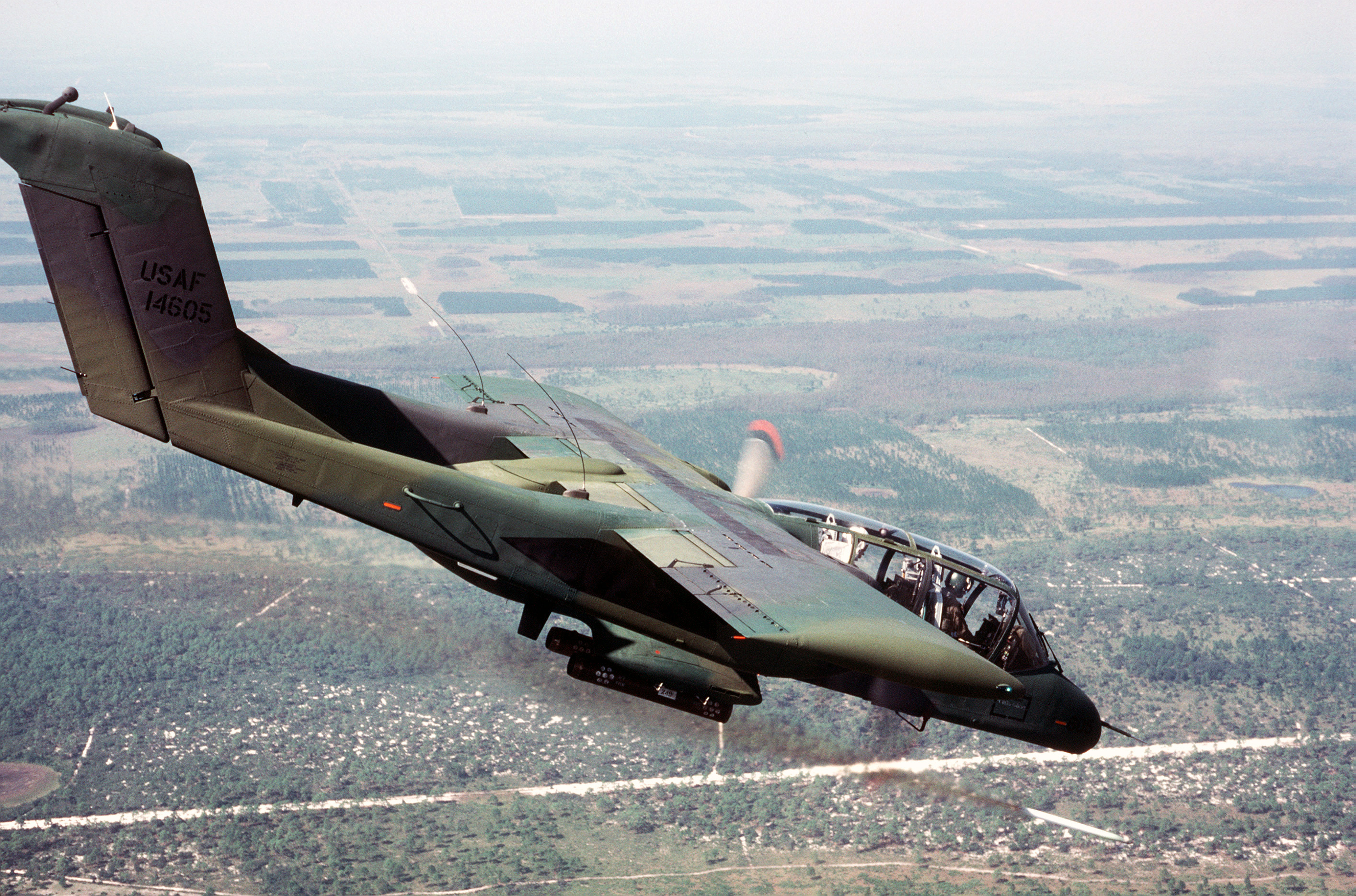 An air-to-air right side view of an OV-10 Bronco aircraft firing a White phosphorus smoke rocket to mark a ground target. The aircraft is used by forward air controllers in support of ground troops. Photo from November 84 Airman Magazine.